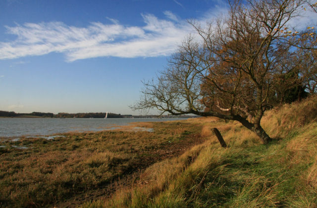 Bank of the River Orwell At high water, the river spreads across the saltings and nearly reaches the river bank.